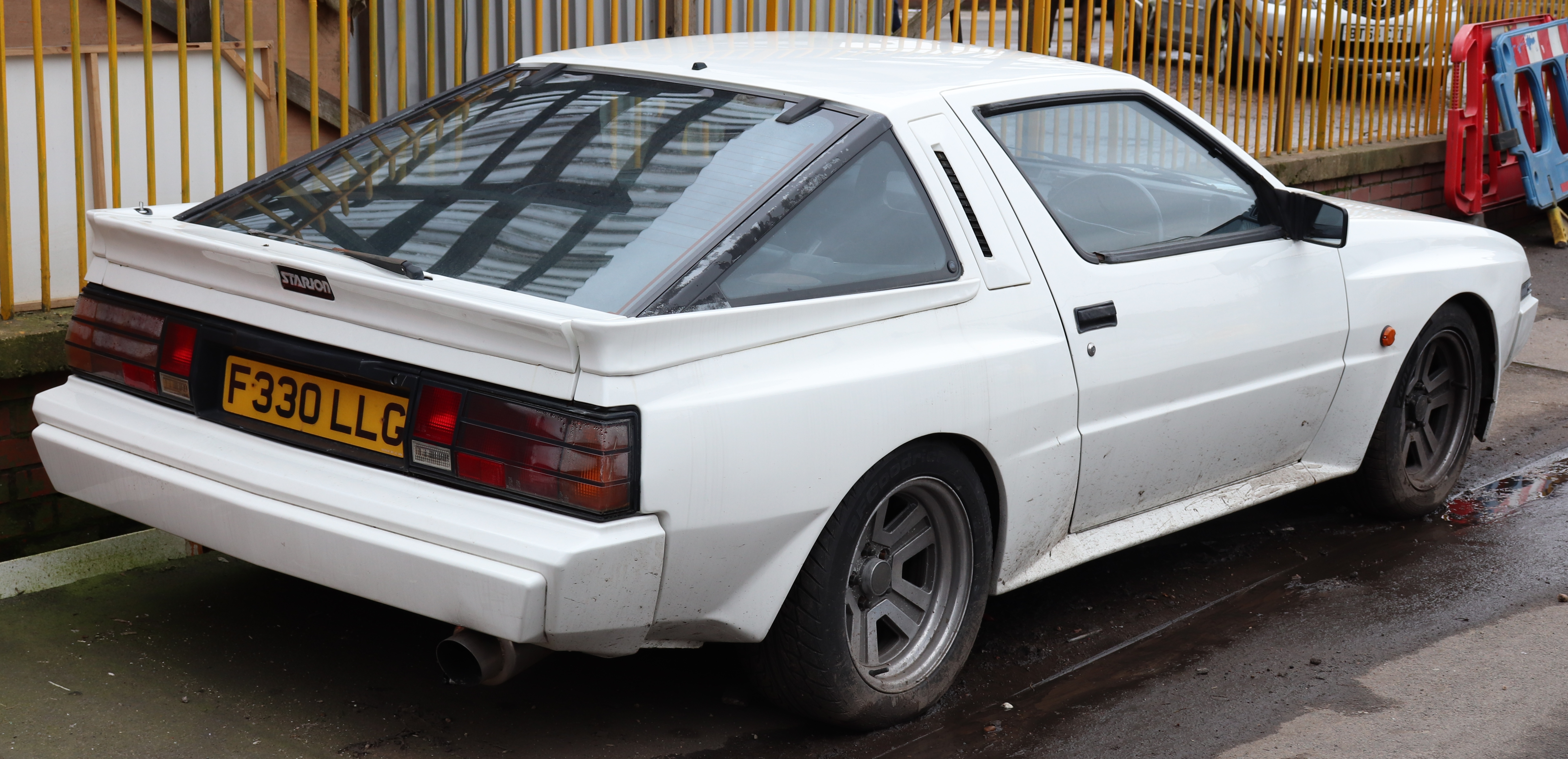 1988 Mitsubishi Starion Turbo 2.0 Rear Taken in Leamington Spa